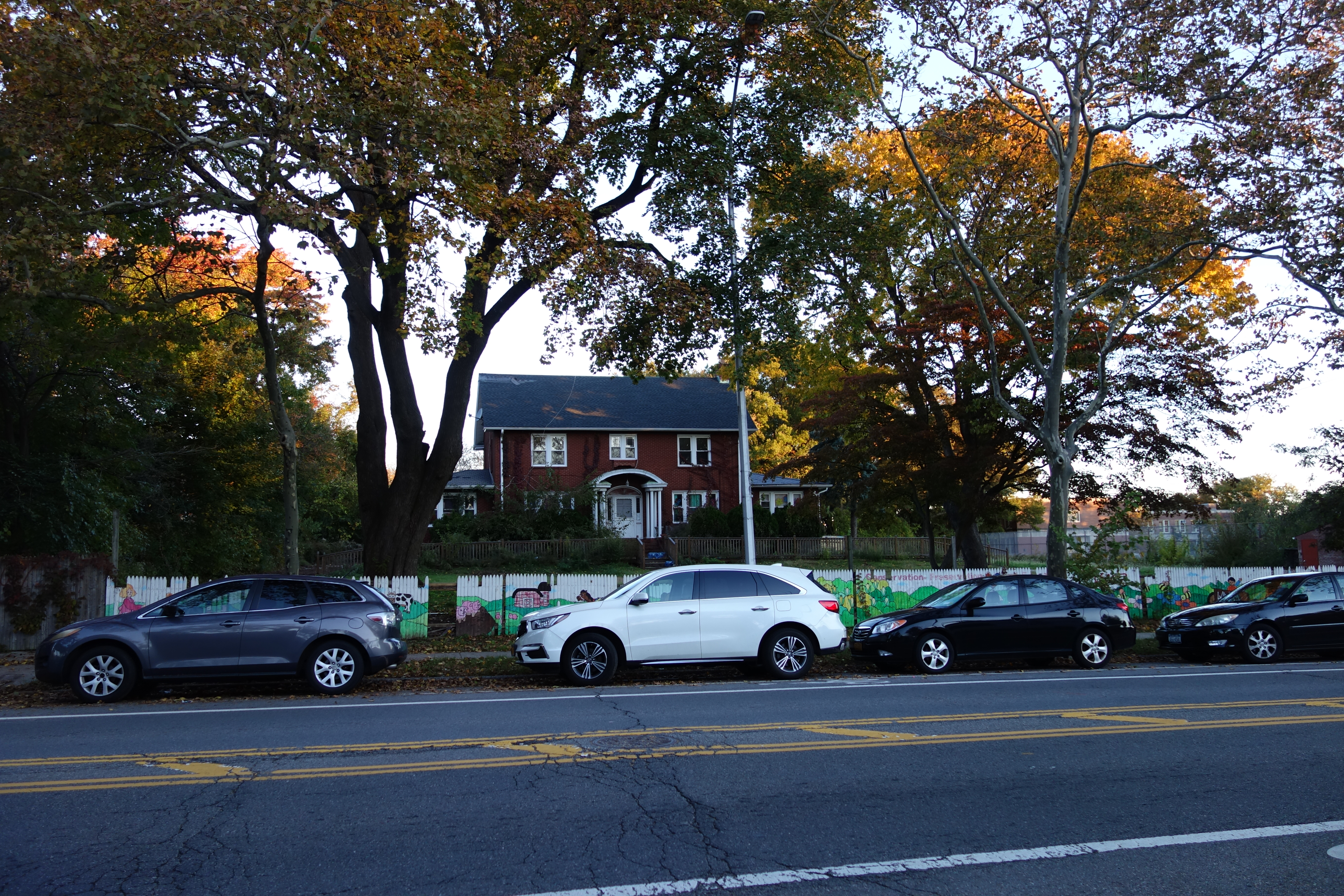 The former Klein Farmhouse, on the north side of 73rd Avenue at 195th Street in Fresh Meadows, Queens. The Klein Farm was one of the last farms to operate in the city, and originally occupied most of what is now Fresh Meadows including the adjacent Farm Playground. The farmhouse was later used as a day care center.